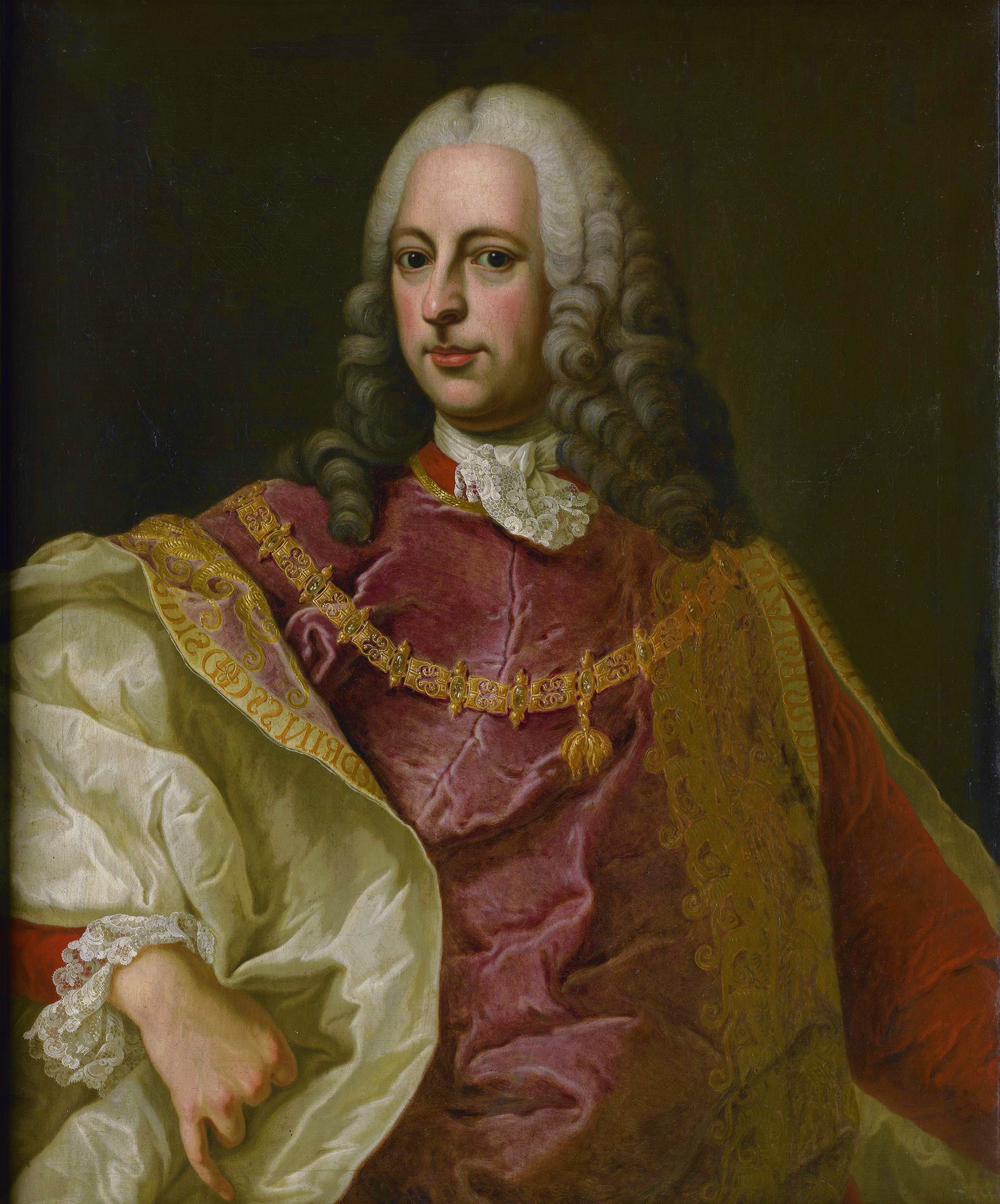 Portrait of Friedrich August von Harrach-Rohrau (1696-1749)